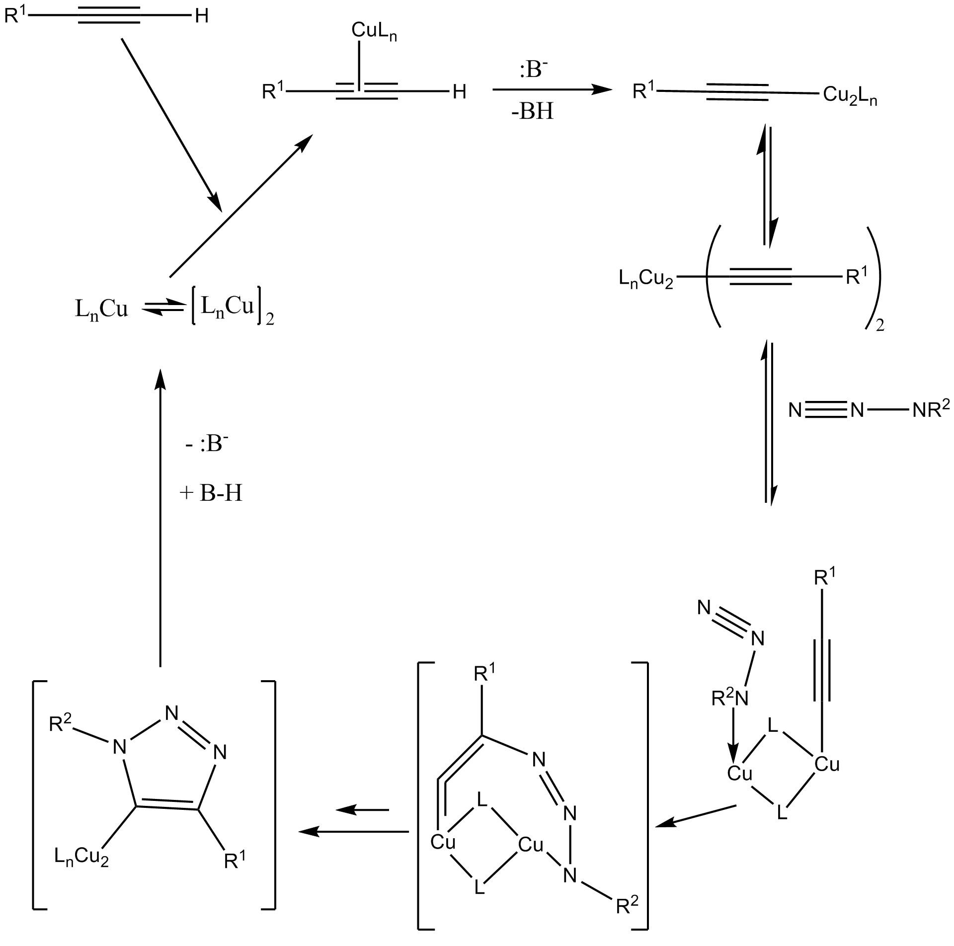 Mechanism for Copper catalysed click chemistry